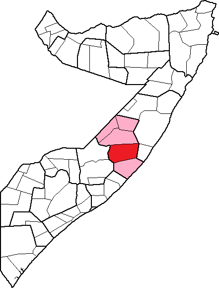 Location of the Ceel Buur (El Bur) district in the Galguduud region, Somalia. Boundaries reflect those endorsed by the Republic of Somalia in 1986.